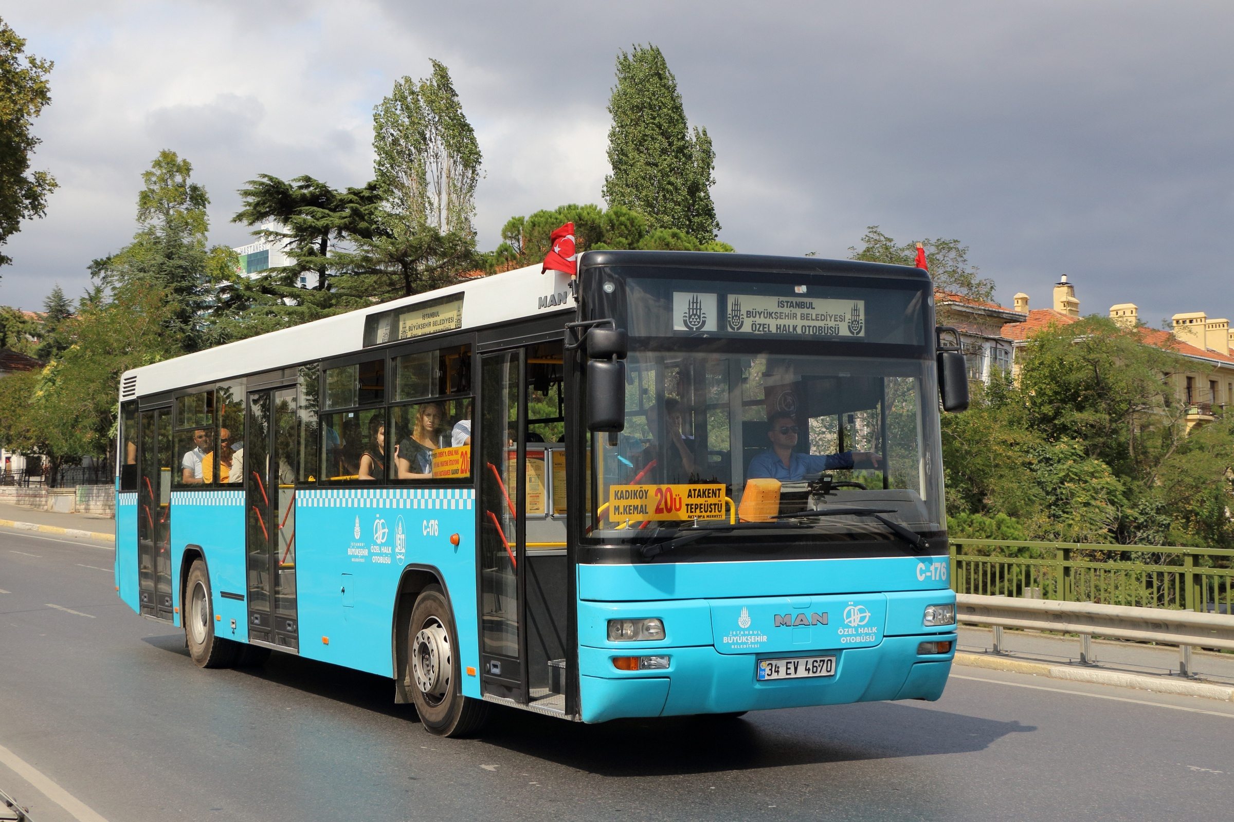 City bus in Istanbul (MAN Lion's Classic)